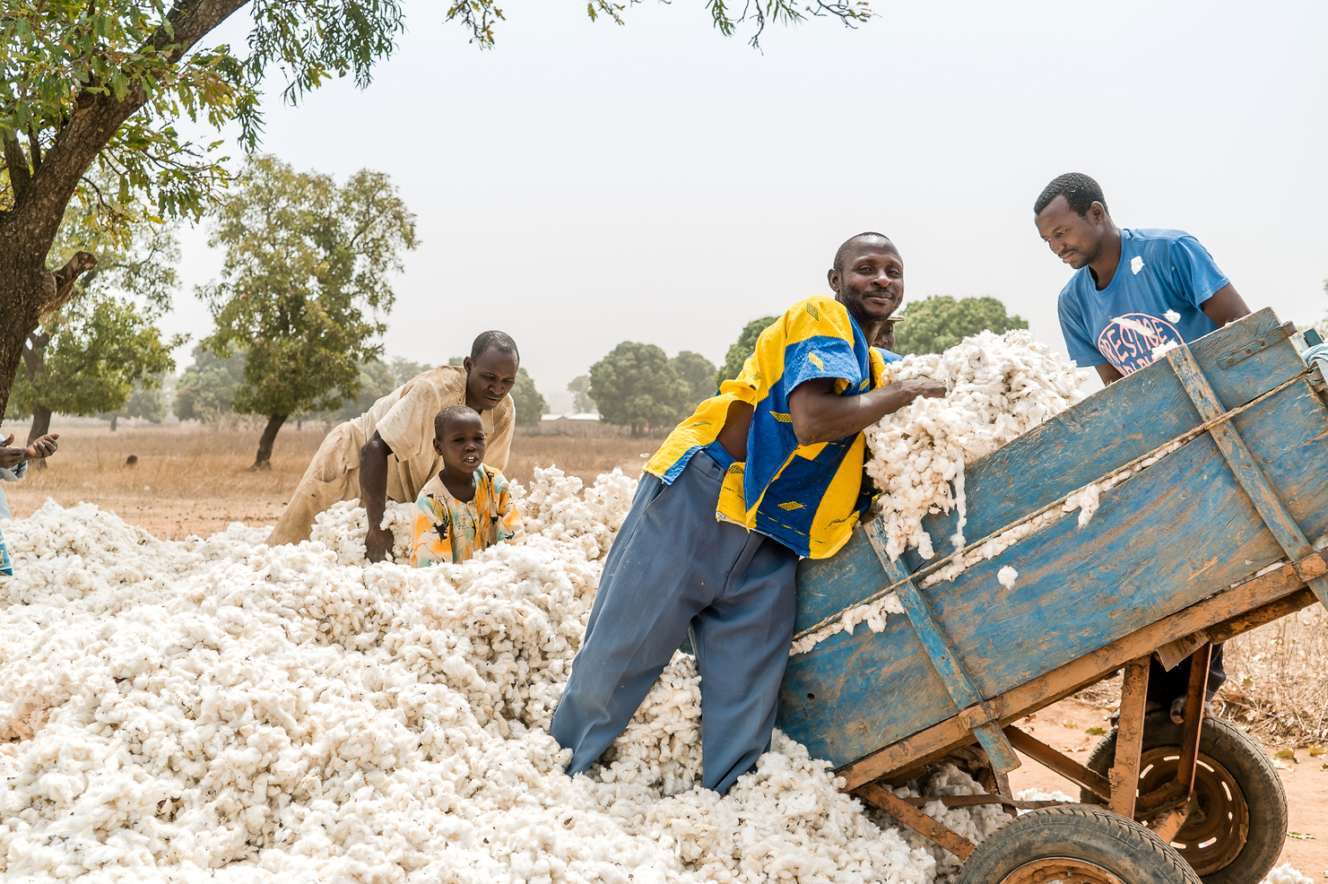 Farmers harvesting cotton, often called the 'gold of Africa'... (Fama, Mali) This is an image of "African people at work" from Mali